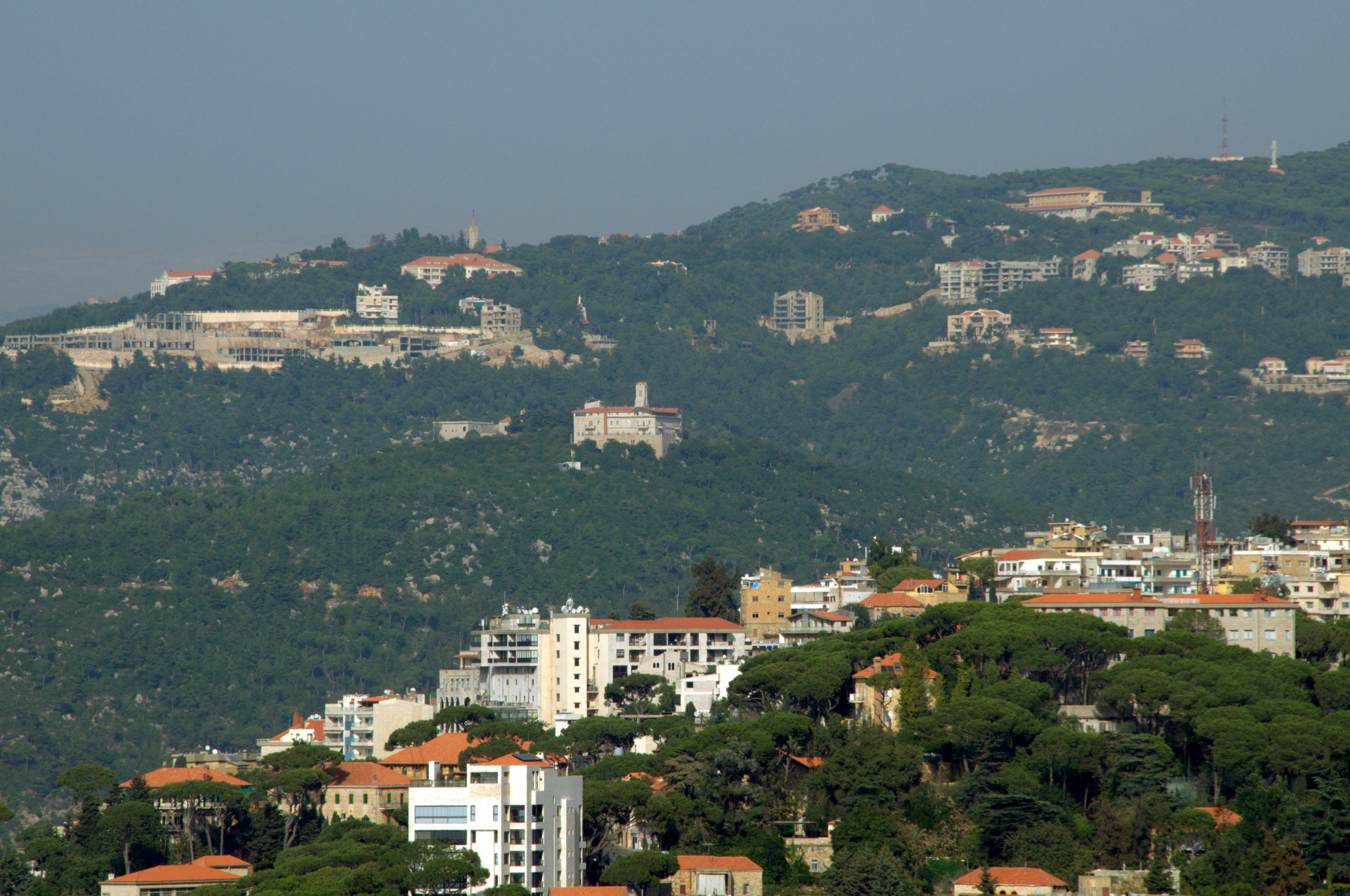 View from my aunt's balcony. processed to remove haze and dust clouds.